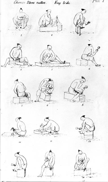 A sketch entitled "Chinese Stone Cutters in Pulau Ubin", showing Chinese stonecutters from the "Kay tribe" (that is, of Hakka origin) at work on Pulau Ubin, an island off the northeast coast of Singapore, cutting blocks of stone for the construction of Horsburgh Lighthouse on another island, Pedra Branca.